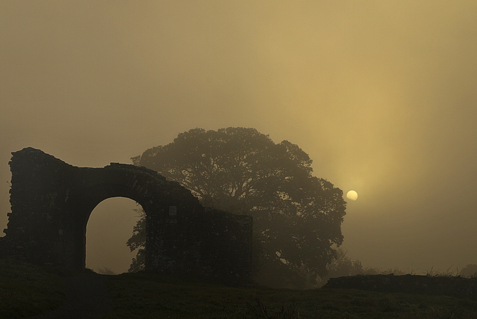 Sheep Gate in Trim, County Meath; national monument no. 469